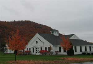 Photograph of Charlotte, Vermont Town hall.